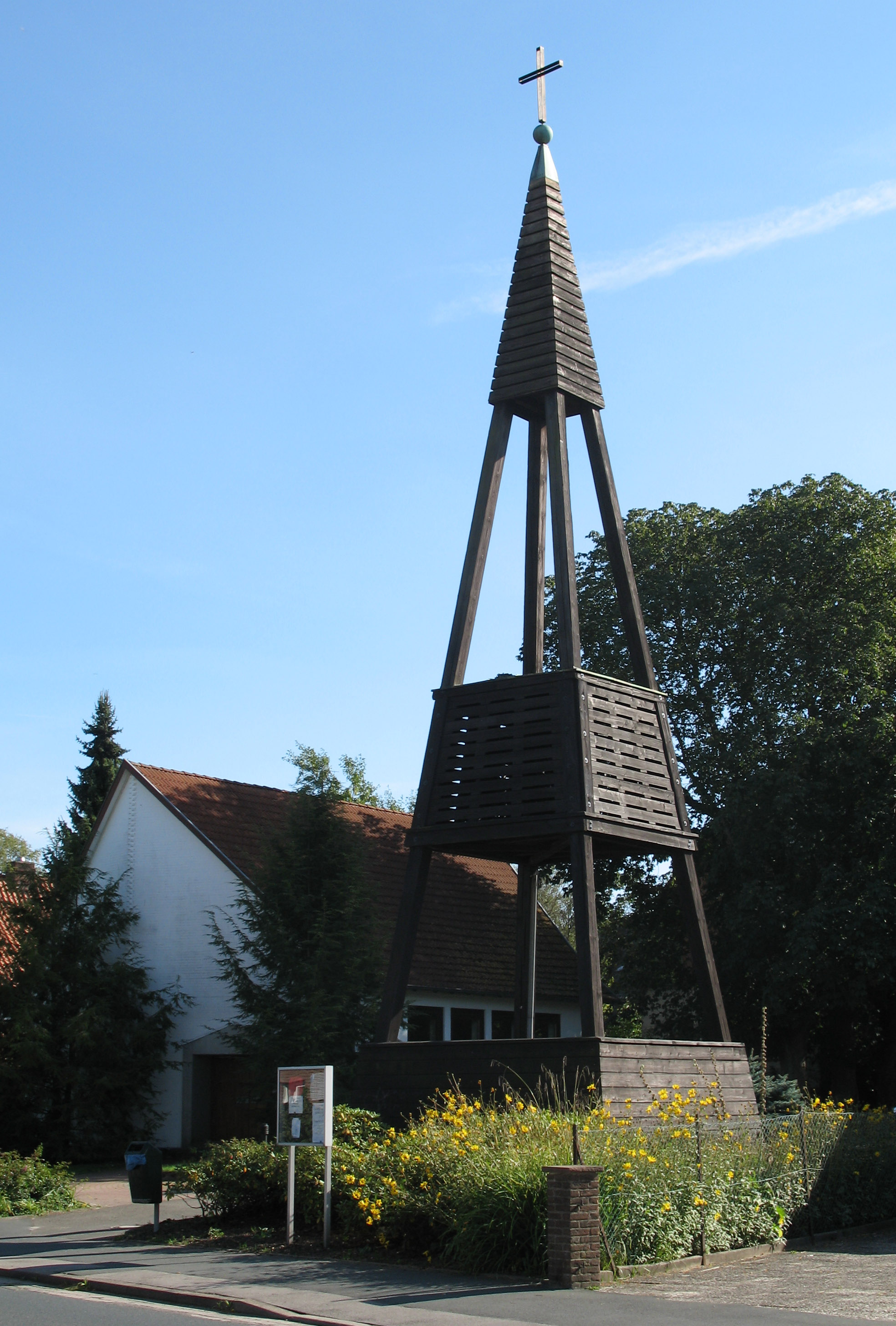 Corvinus-Kapelle, Wennigser Mark, Lower Saxony, Germany